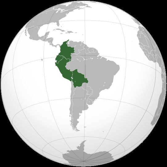 CAN members in 2009